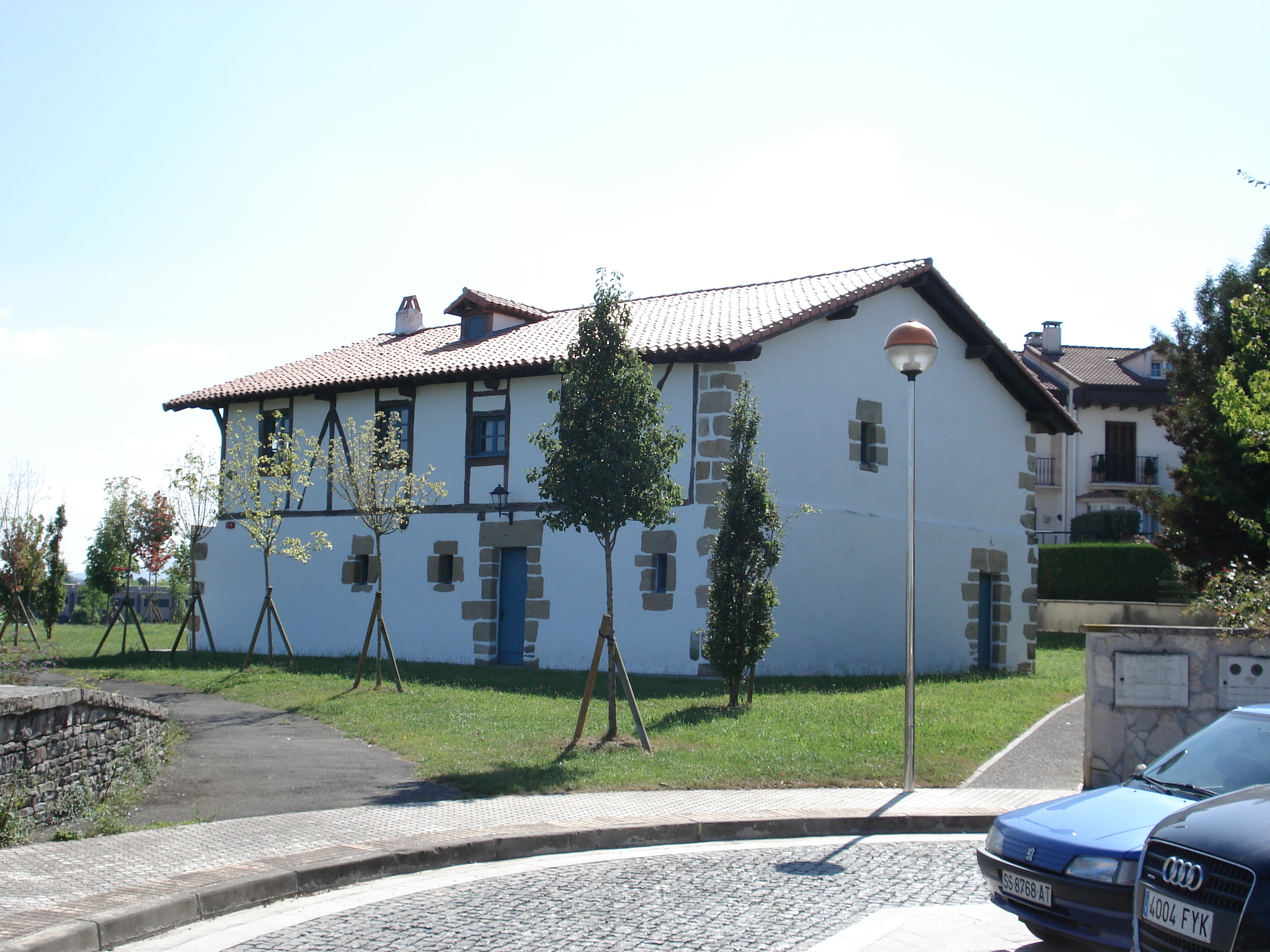 Katxola Baserria, Donostia-San Sebastián